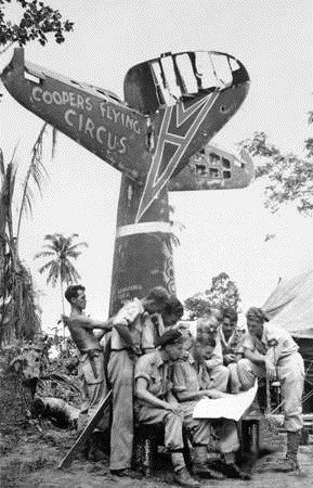 Sentani, Dutch New Guinea. 80 Squadron "Coopers Flying Circus". Pilot Officer Don Hillier (front left) and Squadron Leader Glen Cooper (middle).